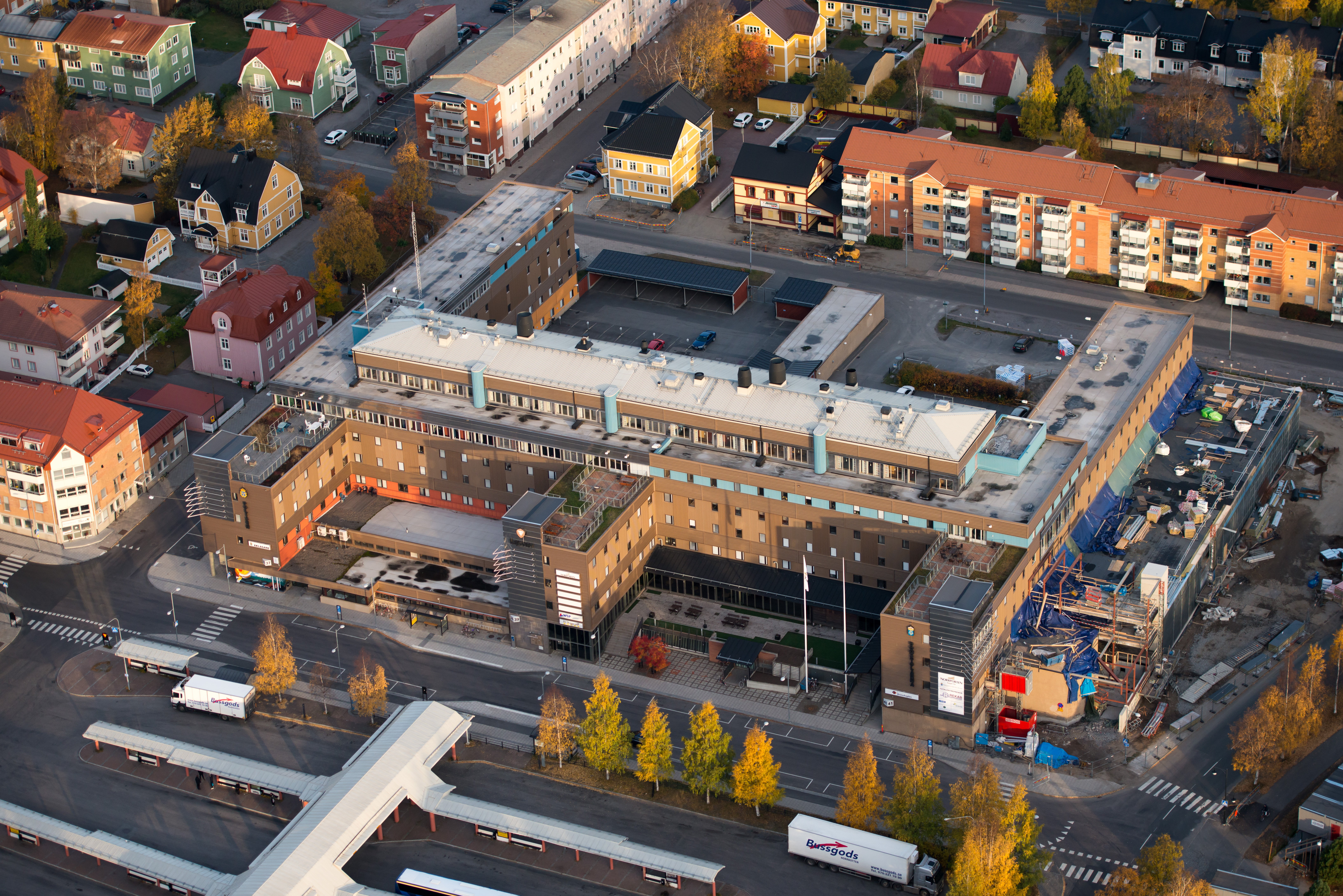 Rättcentrum med bland annat Polismyndigheten i Norrbotten.